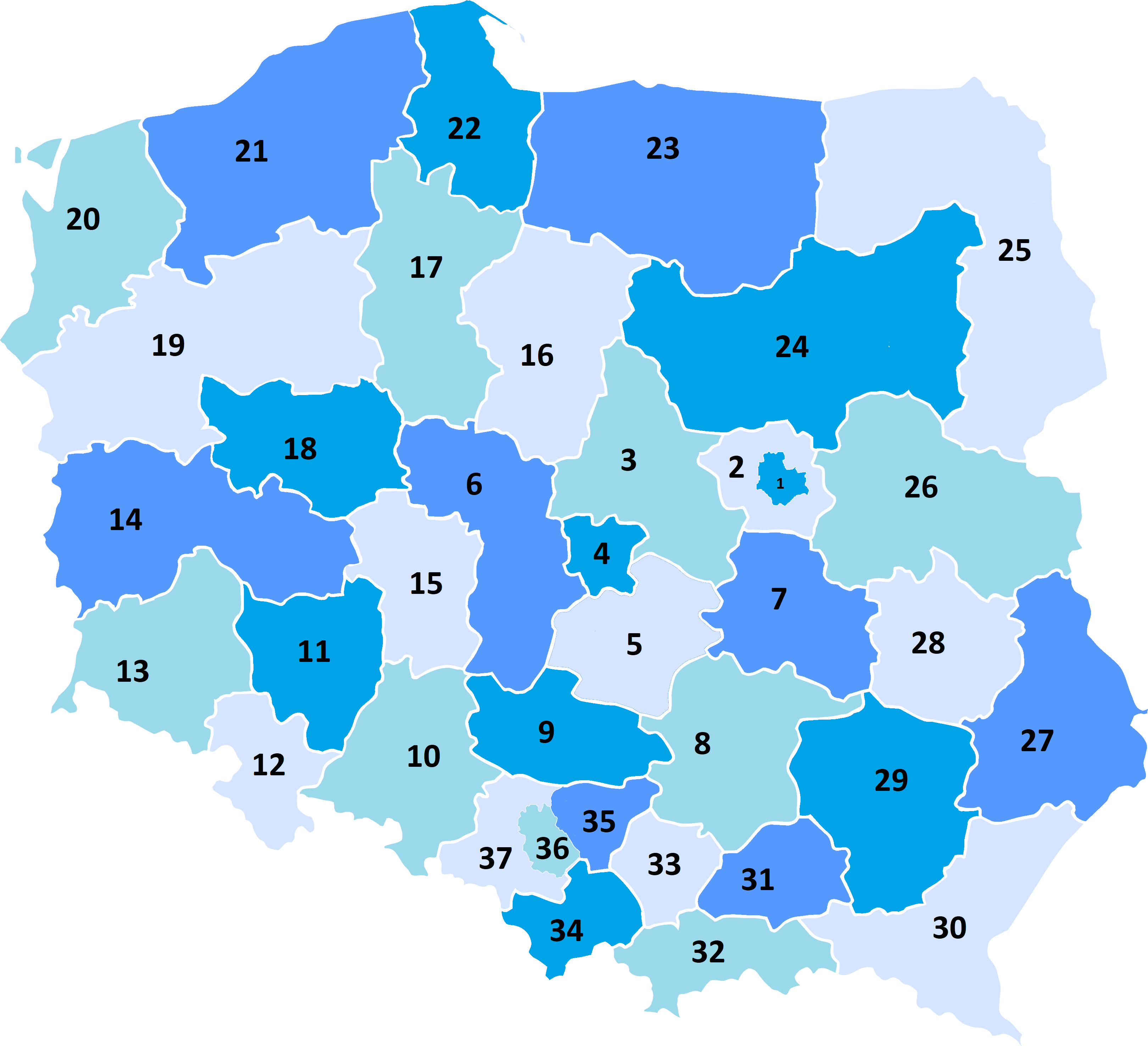 Electoral districts to Polish Sejm (1991)